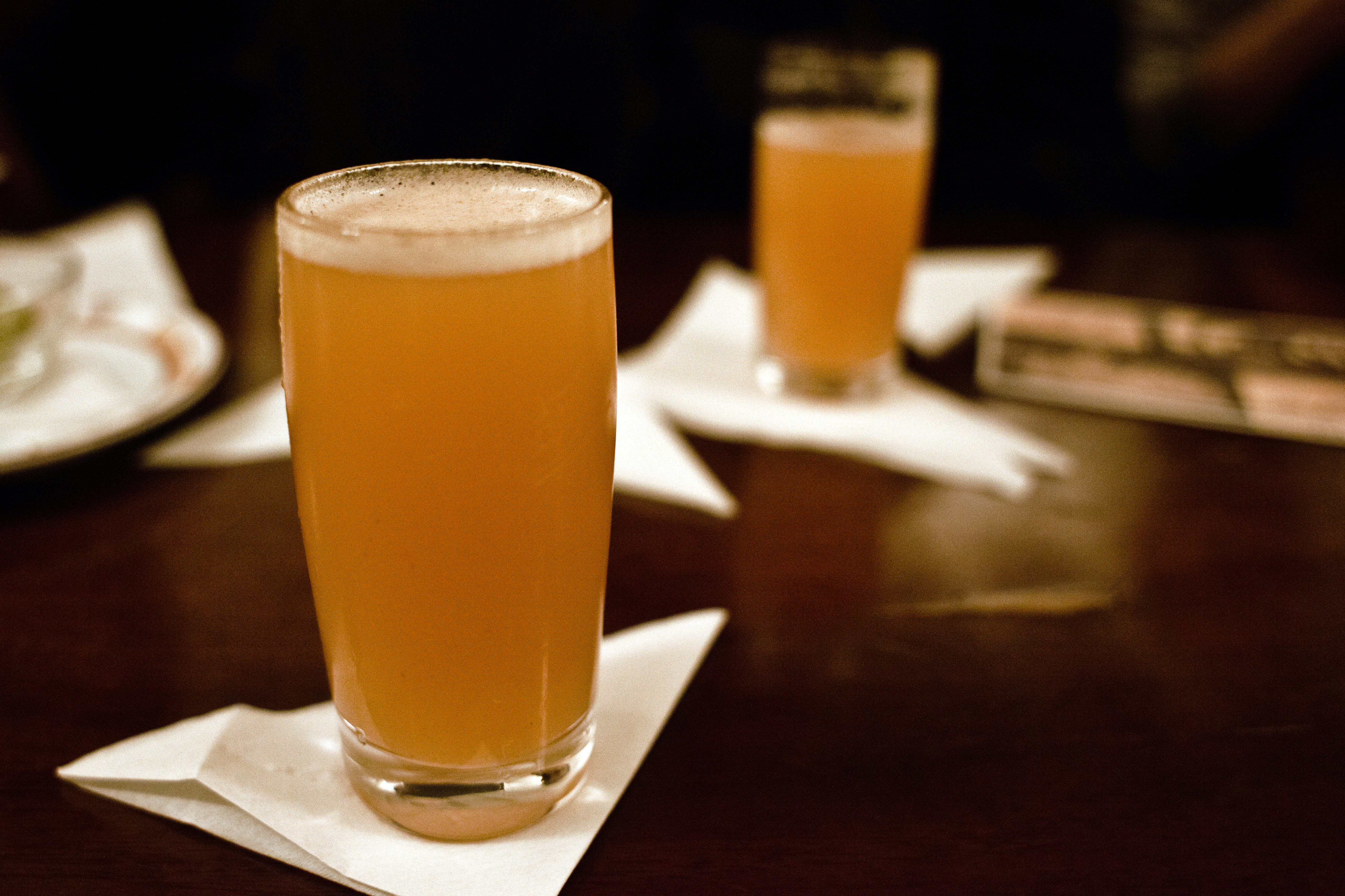 Cocktail Bellini invented in the "Harry's Bar" in Venice Italy.